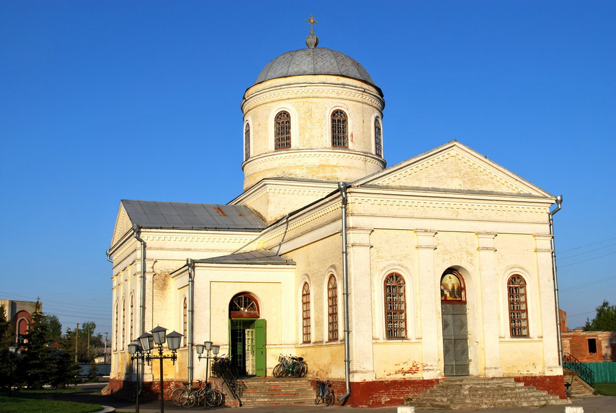 The Assumption (Dormition) Church (1894) in Korop